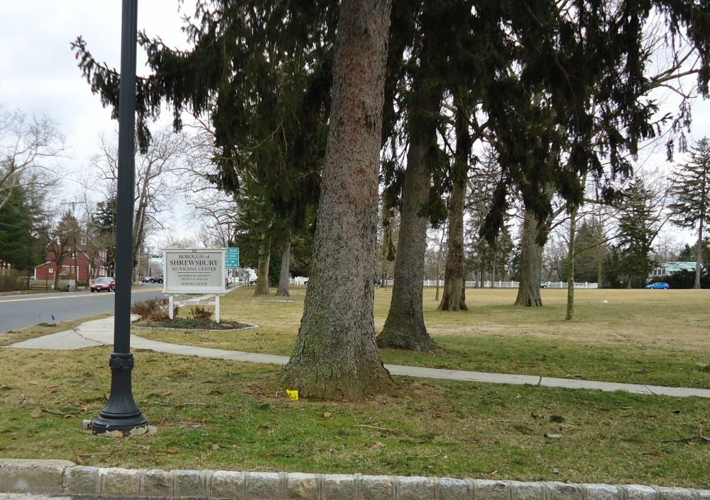 Borough of Shrewsbury, NJ, park and trees.